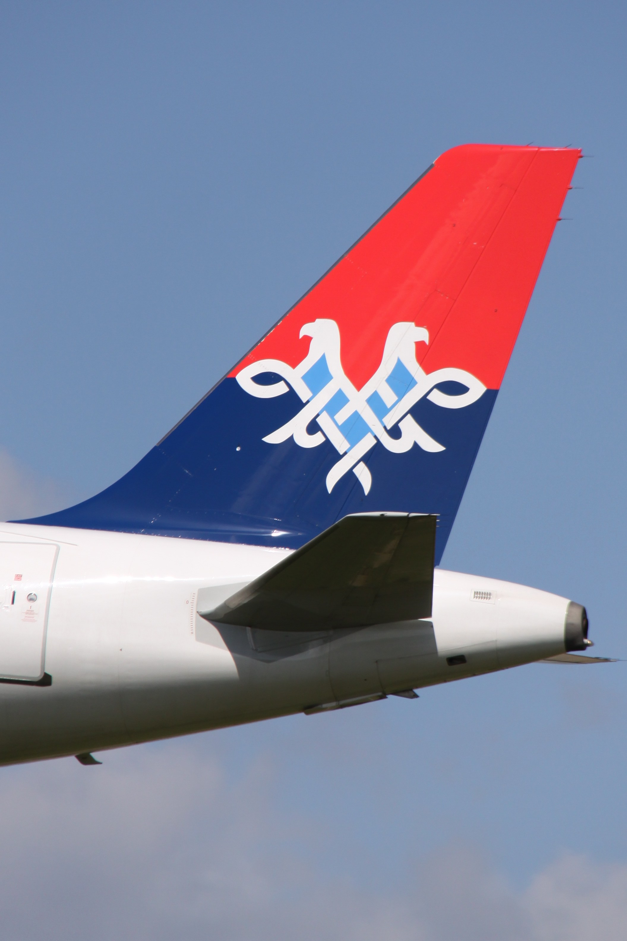 At London Heathrow